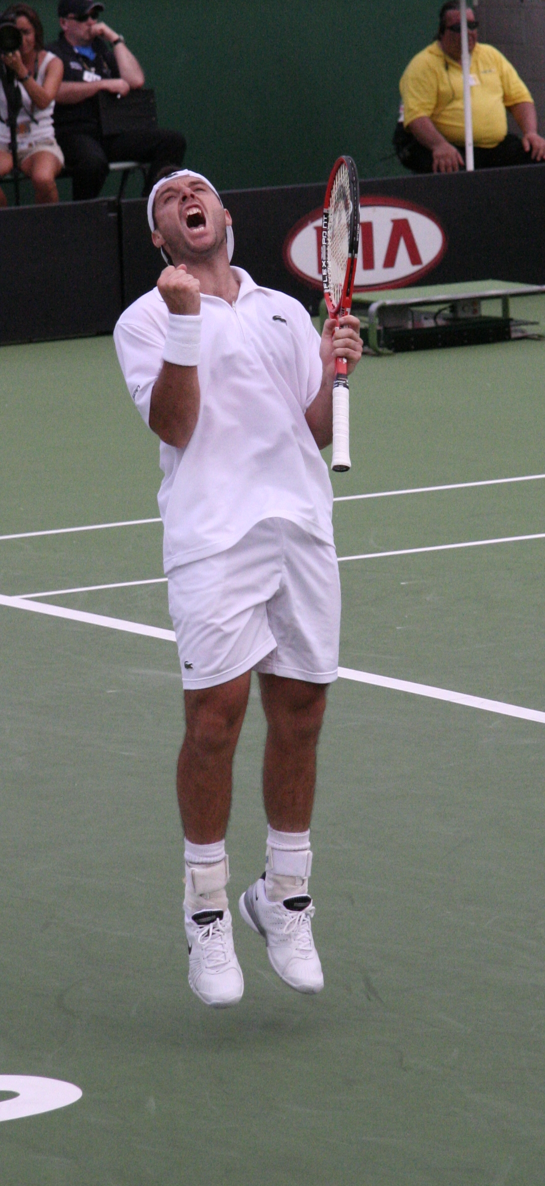 Sebastien Grosjean at the 2007 Australian Open, on winning his second-round match after five sets.